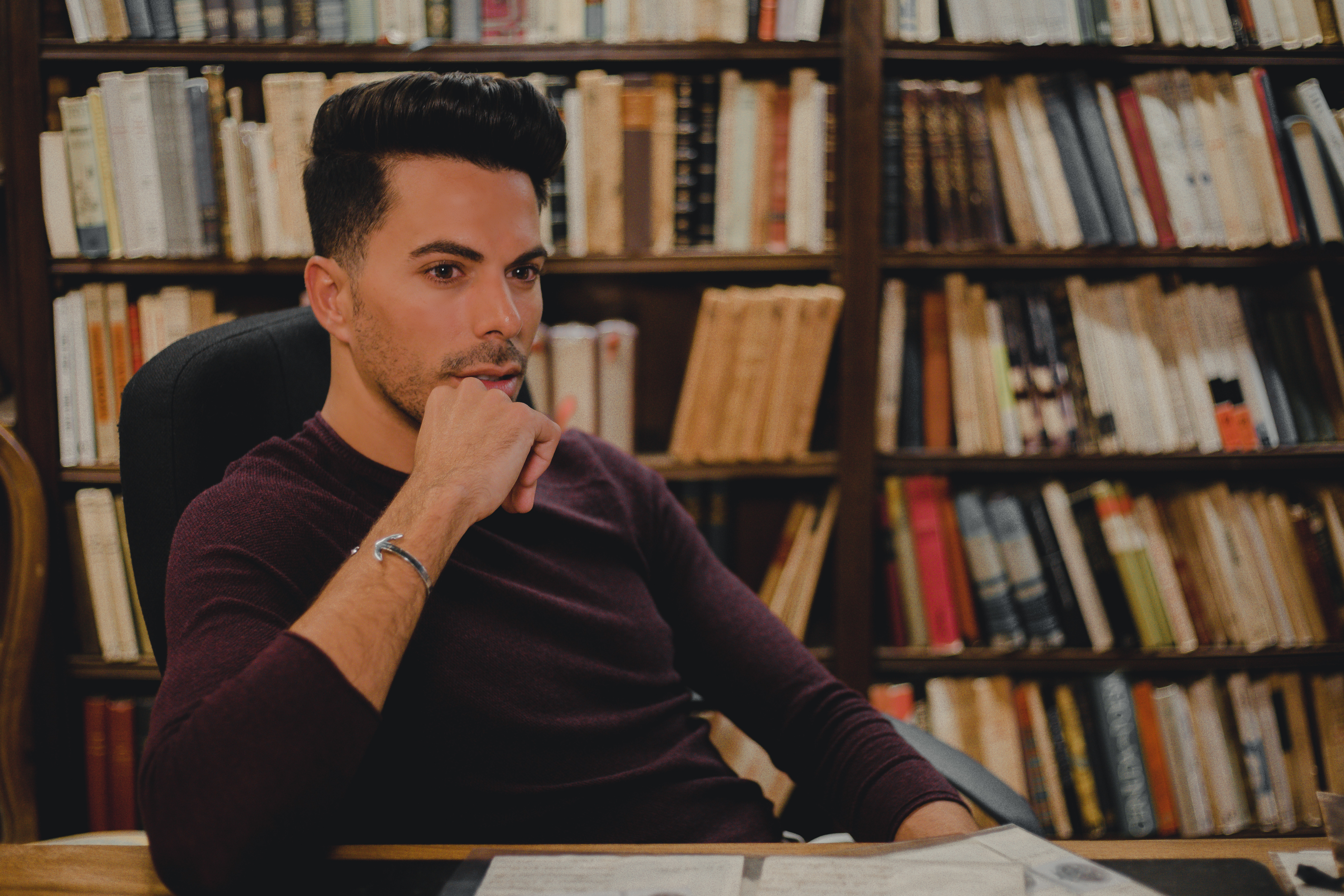 Spanish writer Johan Varo at Lope de Vega Library